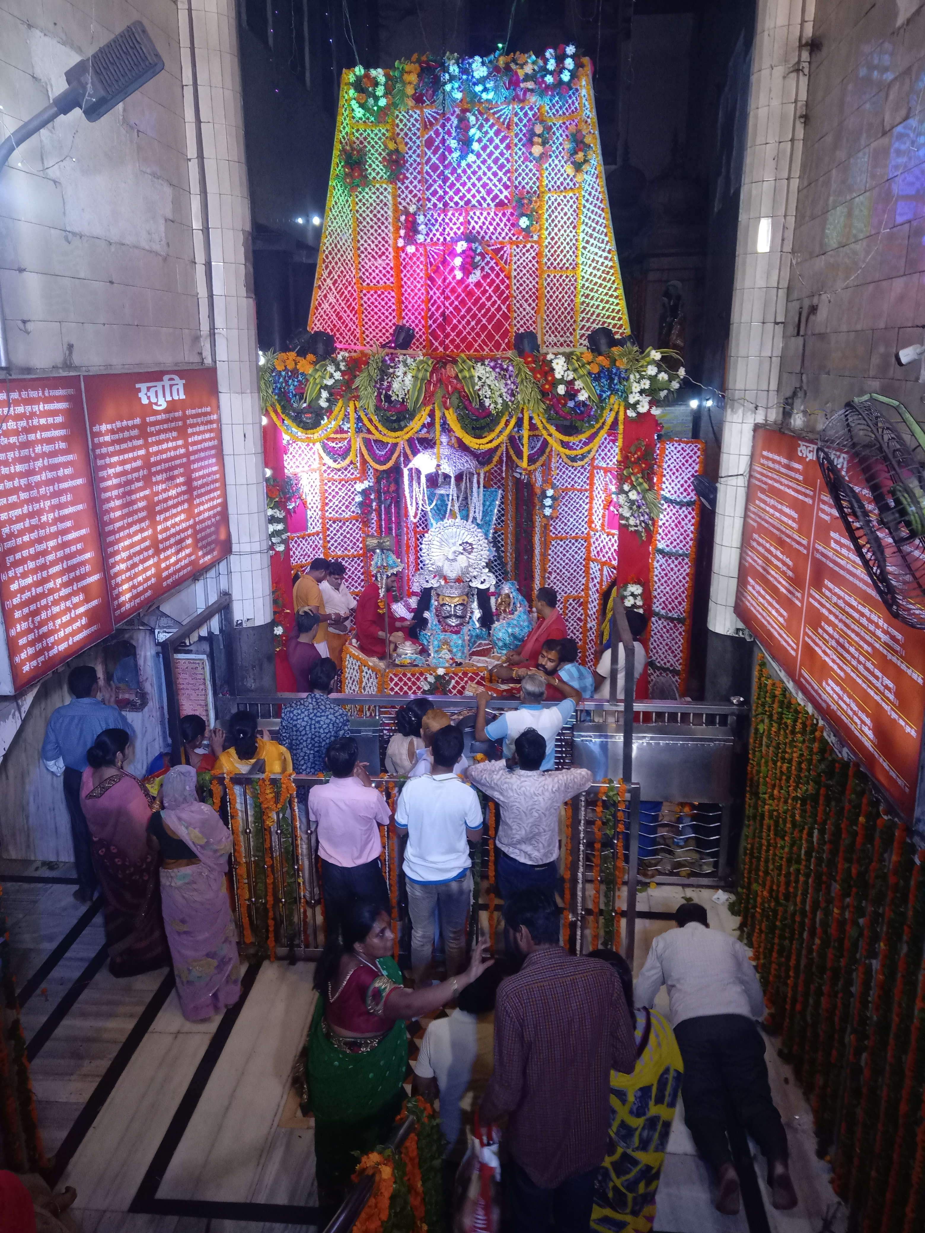 Shri Mankameshwar Temple in Agra is a sacred Hindu temple